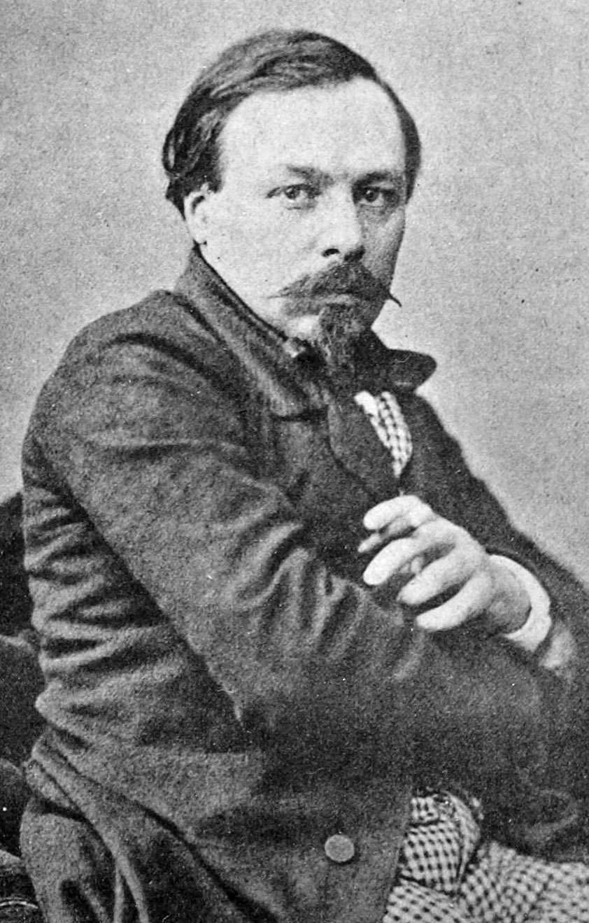 Michel Carré (1821–1872), French opera librettist